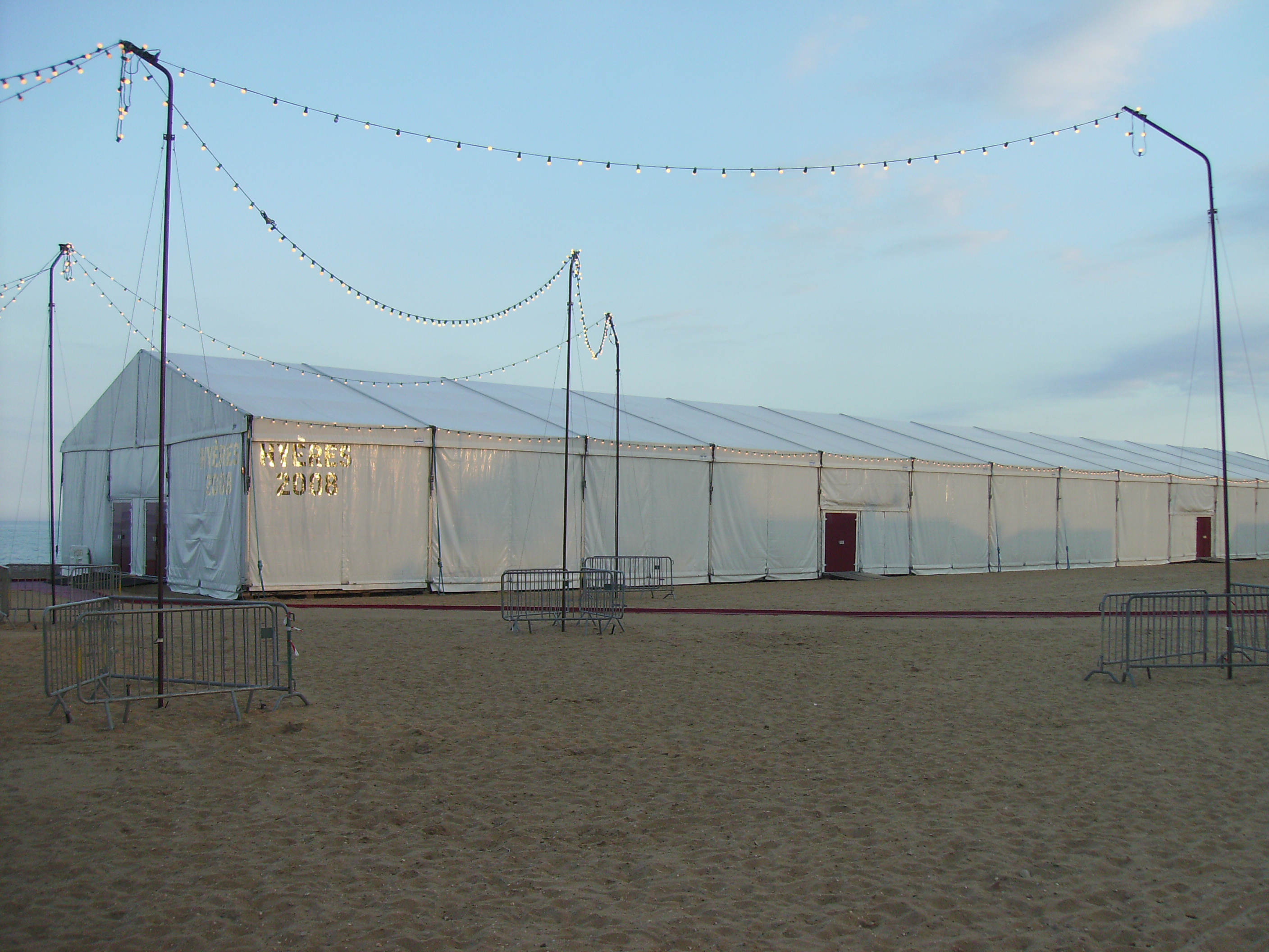 Festival international de mode et de photographie 2008 - April 2008